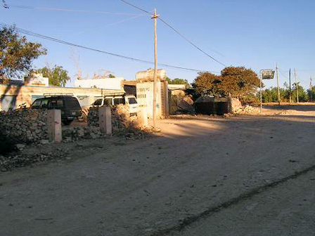 Erigavo, Sanaag, Somalia